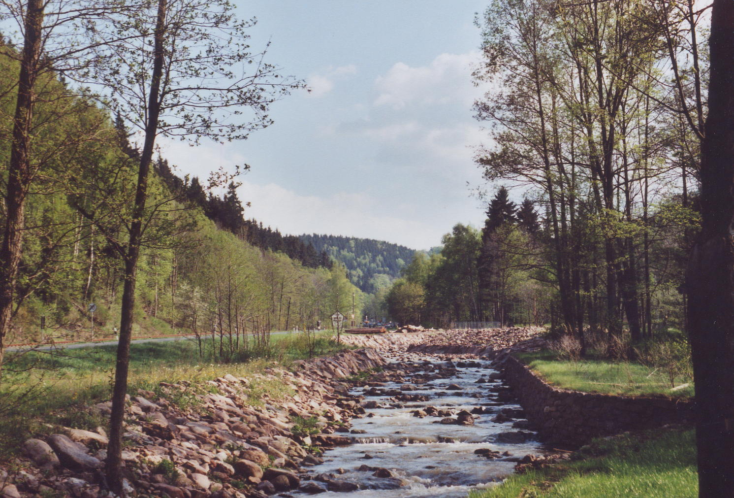 This image shows the Rote Wasser near Hartmannmühle in the Ore Mountains in Saxony, Germany.